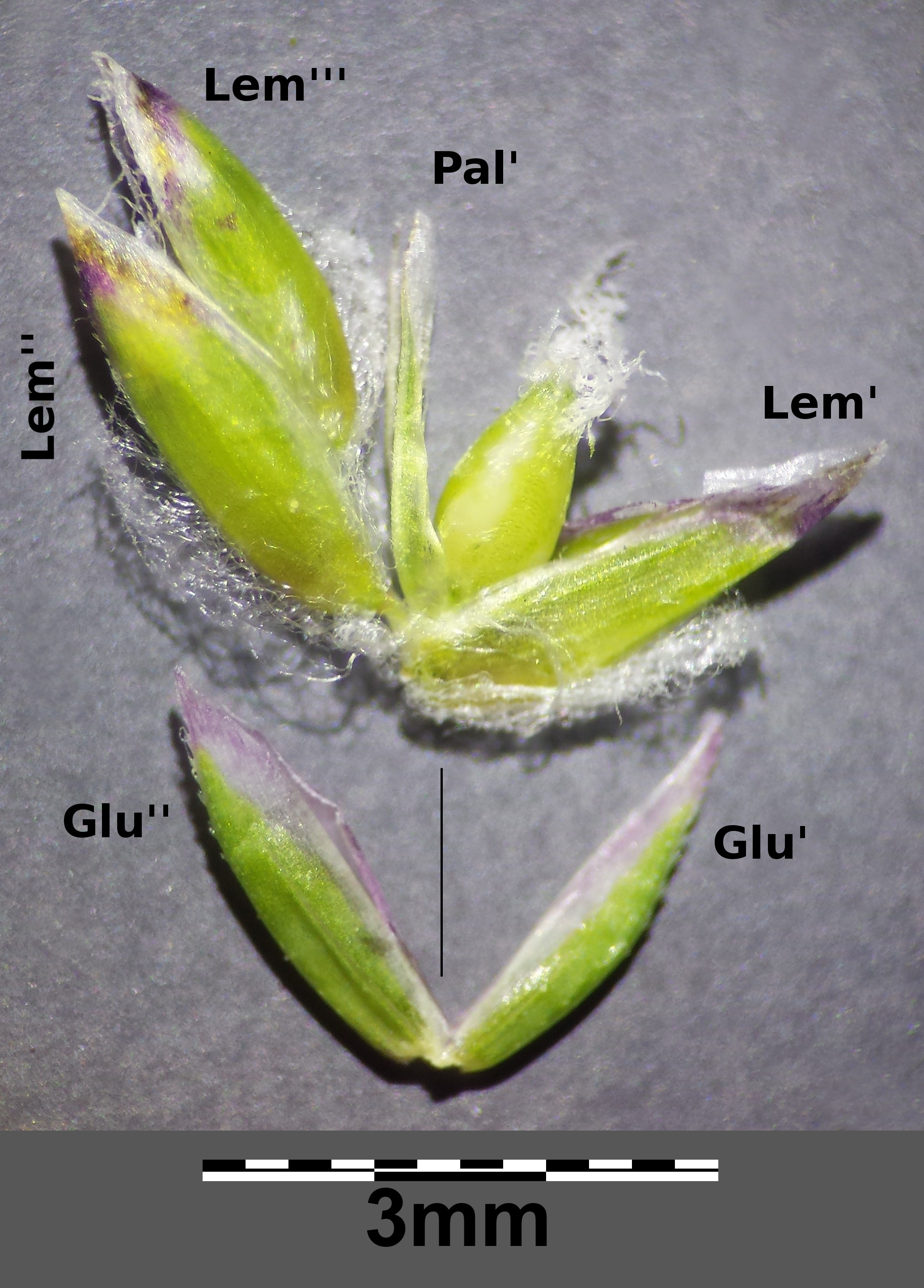 Spikelet Glu = Gluma Lem = Lemma Pal = Palea Taxonym: Poa pratensis ss Fischer et al. EfÖLS 2008 ISBN 978-3-85474-187-9 Location: next to Schmetterlingswiese in Donaupark, Vienna-Donaustadt - ca. 160 m a.s.l. Habitat: ruderal, dry meadows